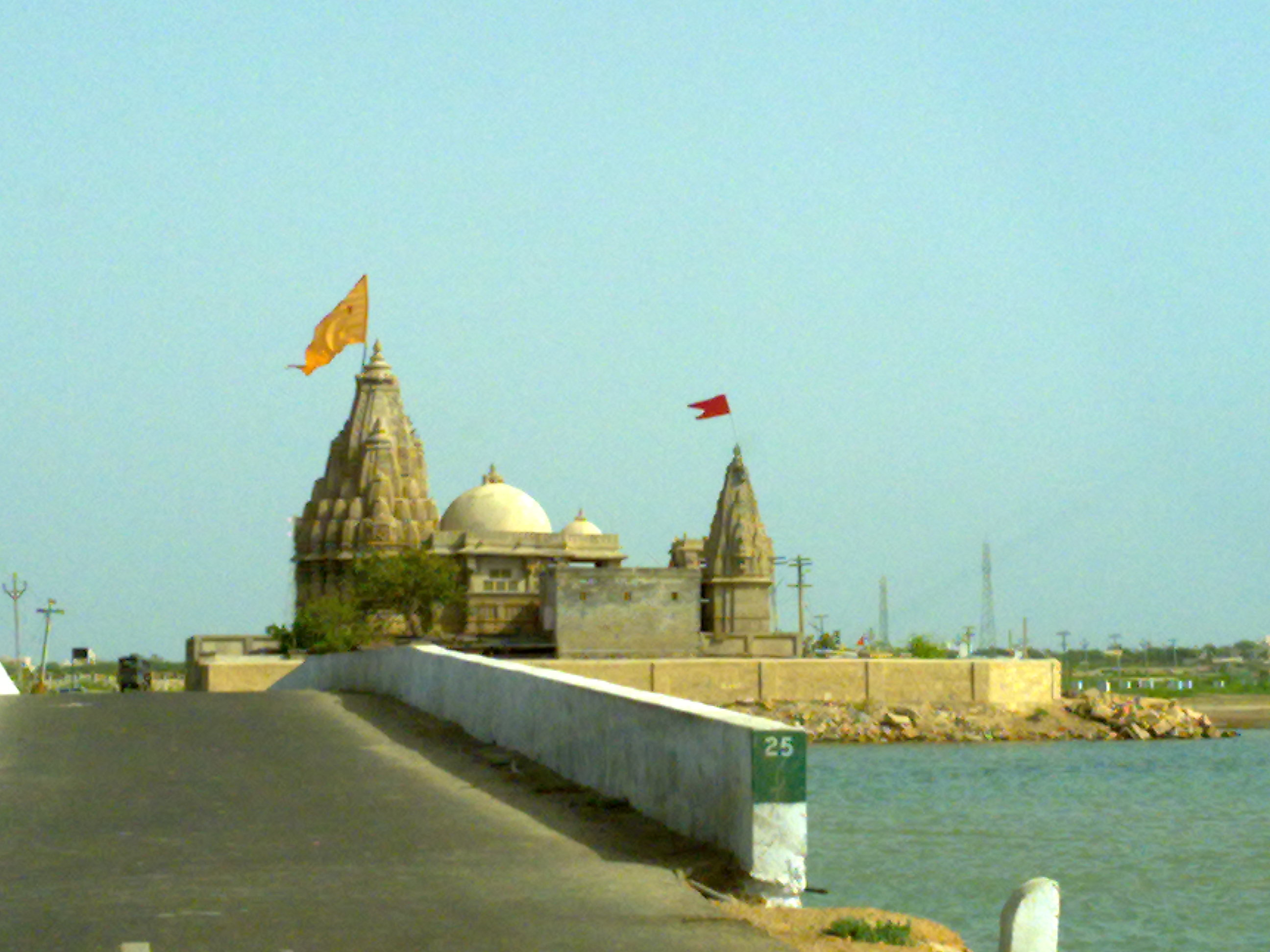 This is the photo of the Rukmini Temple at Dwarka.